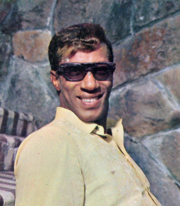 American-born Italian singer and actor Rocky Roberts